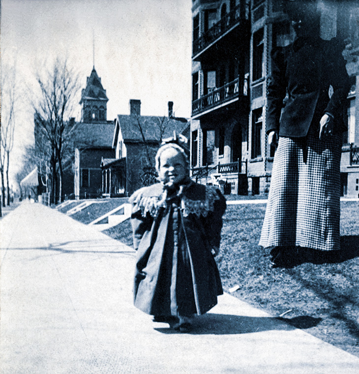 Black-and-white photographic portrait of writer F. Scott Fitzgerald and his mother on Laurel Avenue, St. Paul, Minnesota. Circa 1897. Courtesy of the Minnesota Historical Society.